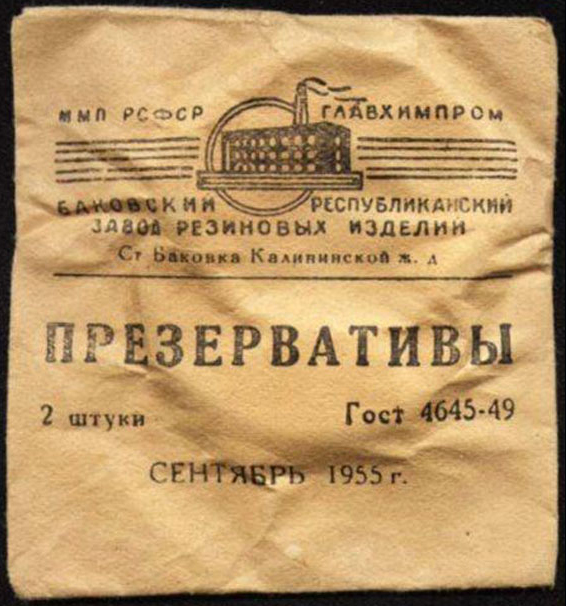 Soviet condoms, 2x pack, september 1955